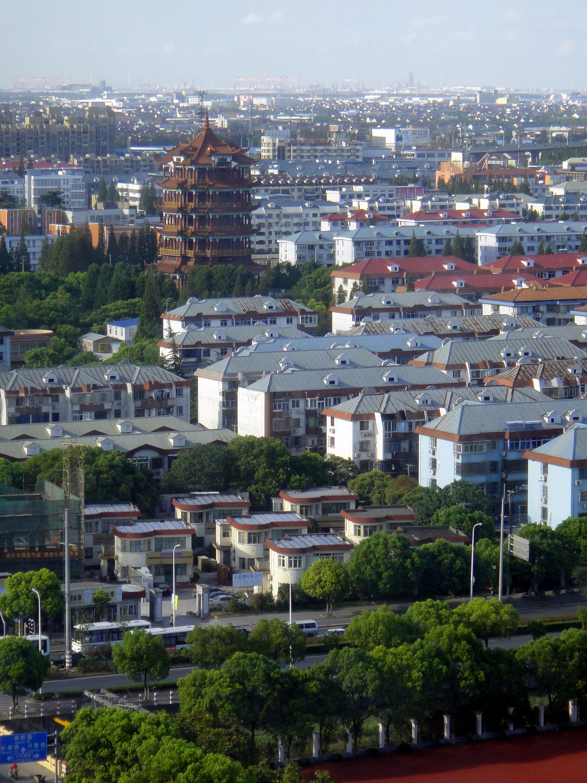 View from the hotel room in an hotel close to Shanghai Pudong International Airport